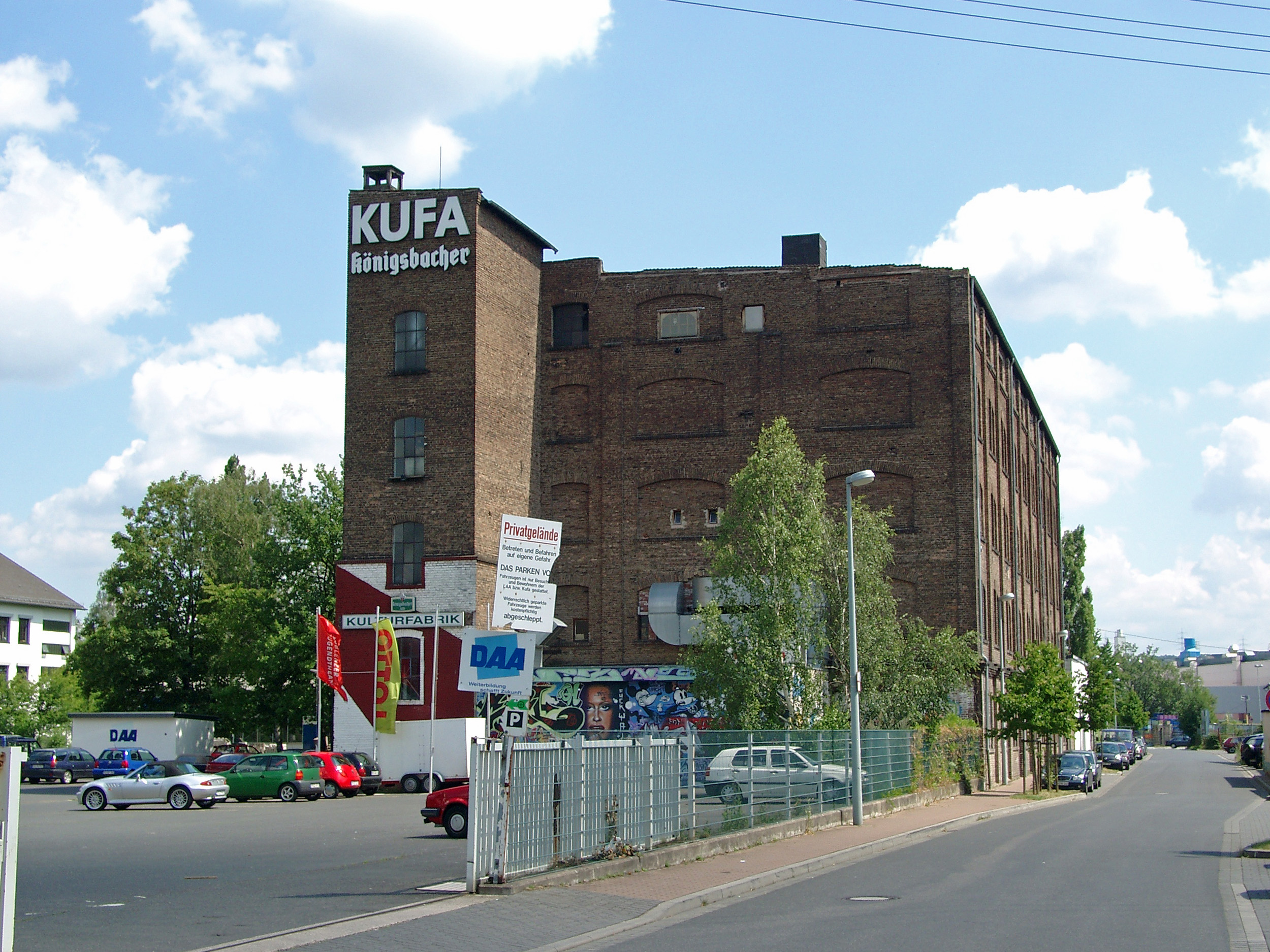 Kulturfabrik in Koblenz